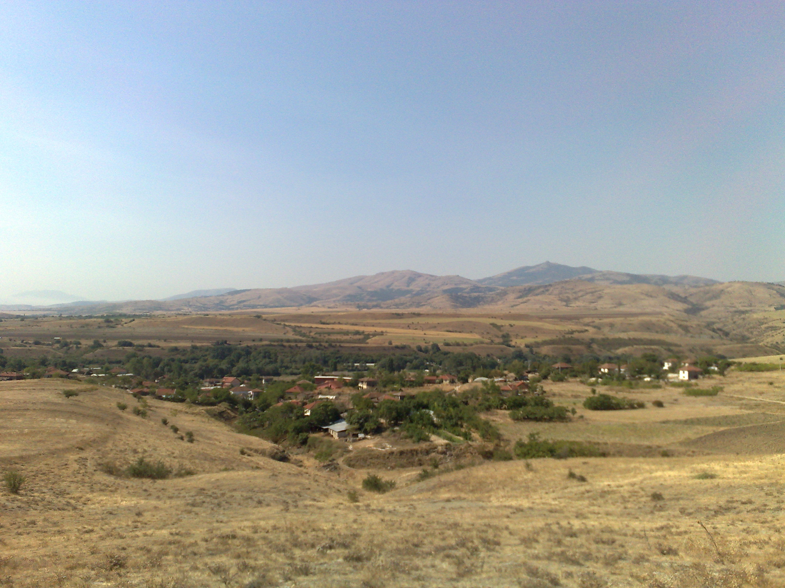 View of the mountain of Klepa from village of Nogaevci, Macedonia